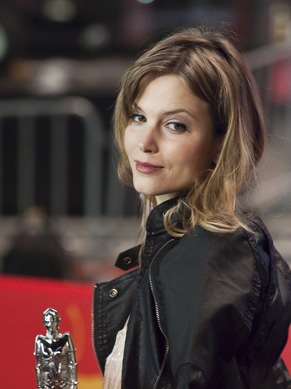 Dutch actress Sylvia Hoeks after receiving the Shooting Stars Award.